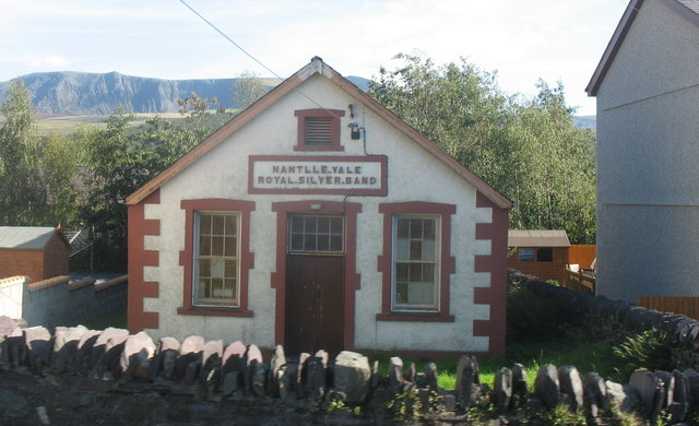 Band Room of the Nantlle Vale Royal Silver Band, Talysarn Bands played an important part in the culture of the slate quarrying areas, and still do today, if to a lesser extent. Nantlle Vale Silver Band was formed in 1865. It became Royal in 1894 when it played on the quayside in Caernarfon as the Prince and Princess of Wales glided past in the Royal Yacht. It is still very much alive today. The mountain in the background in Craig Cwm Silyn.